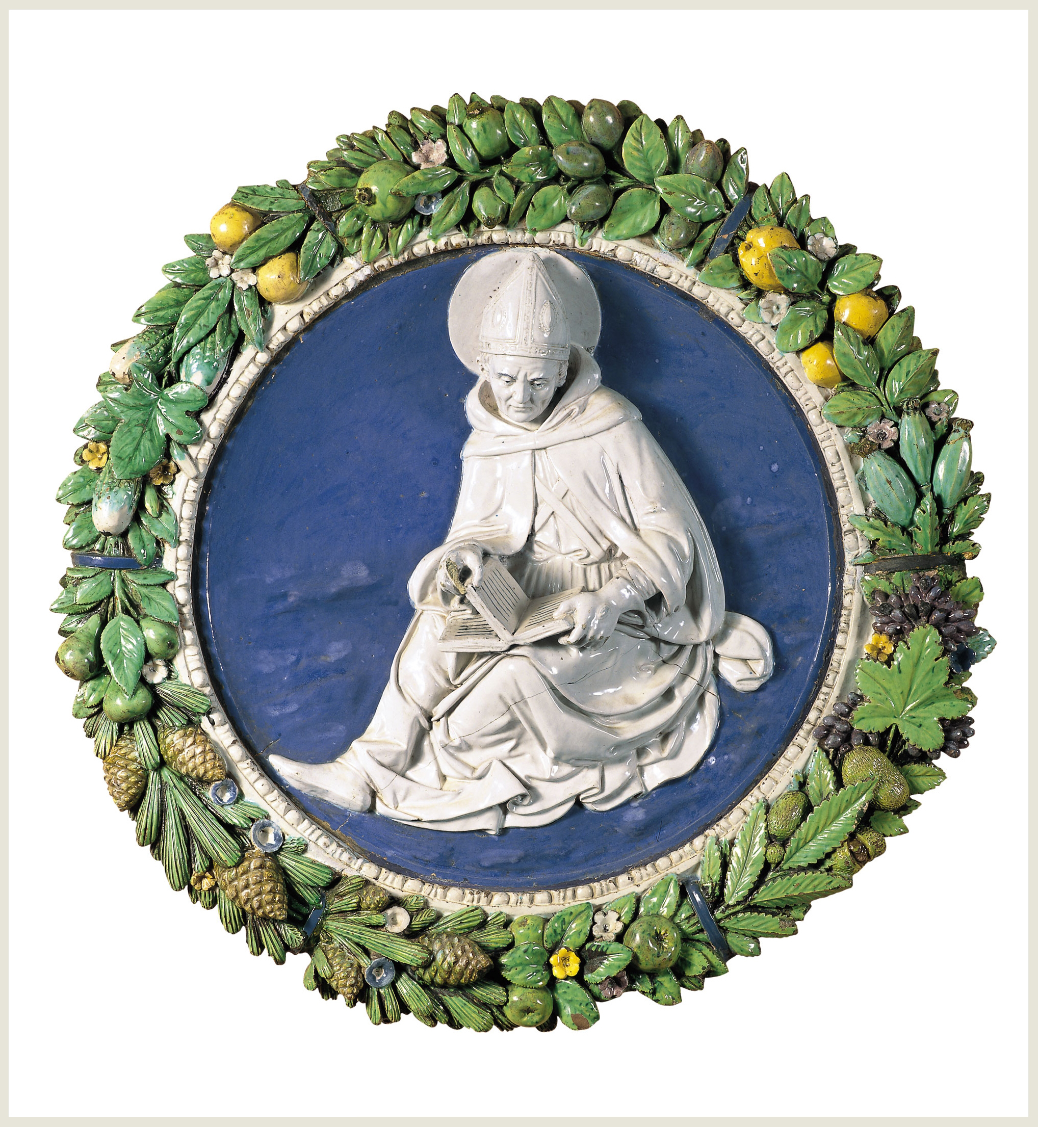 Andrea Della Robbia San Agustin Colección Carmen Thyssen-Bornemisza en depósito en el Museo Thyssen-Bornemisza ca 1490